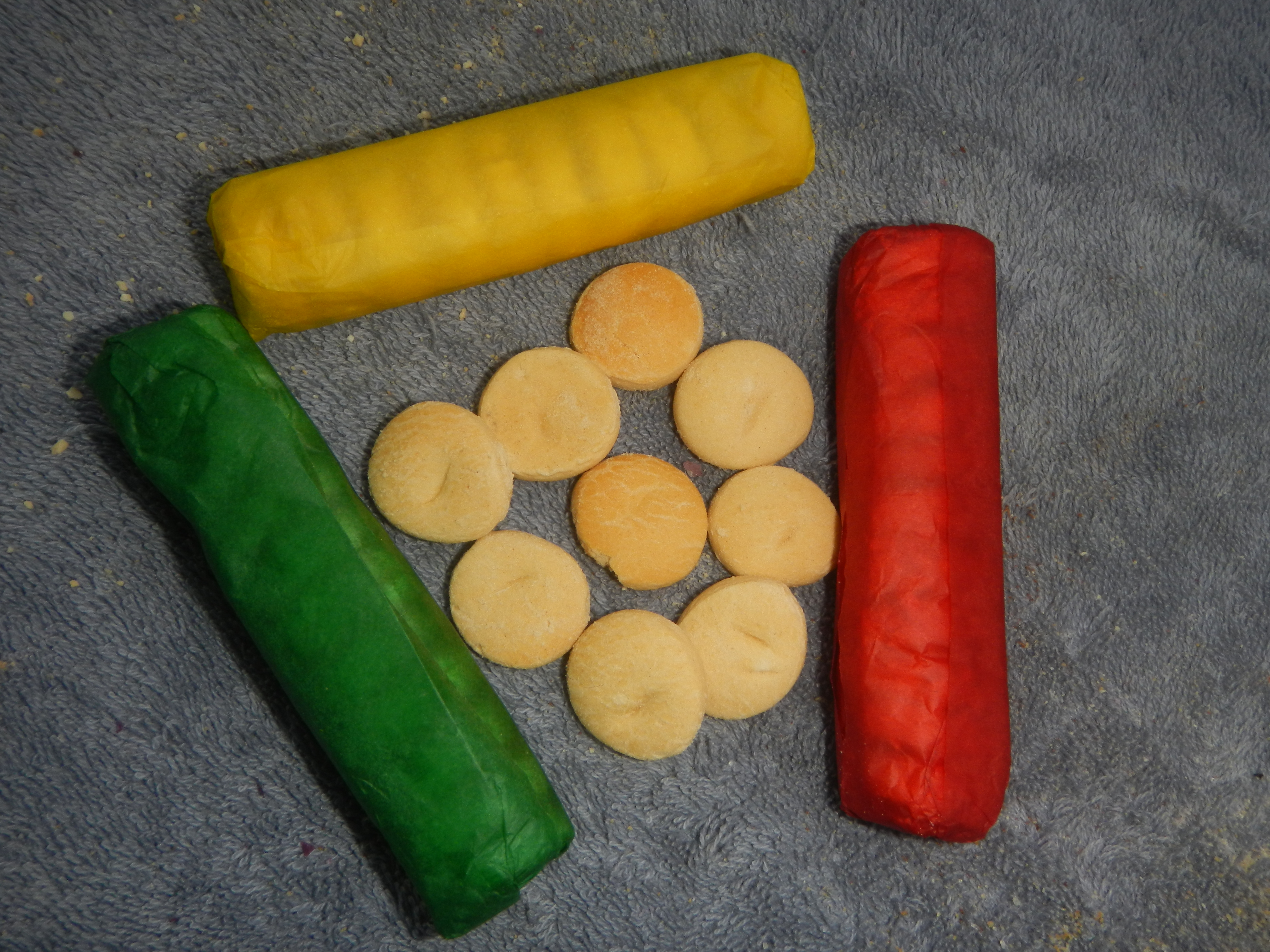 Uraró (aroowroot) biscuit Biskotso Biscocho de Manila Jacobina (food) photos taken in Baliuag, Bulacan, Bulacan (Note: Judge Florentino Floro, the owner, to repeat, Donor Florentino Floro of all these photos hereby donate gratuitously, freely and unconditionally all these photos to and for Wikimedia Commons, exclusively, for public use of the public domain, and again without any condition whatsoever).